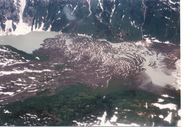 Recently extruded lava at the Blue River